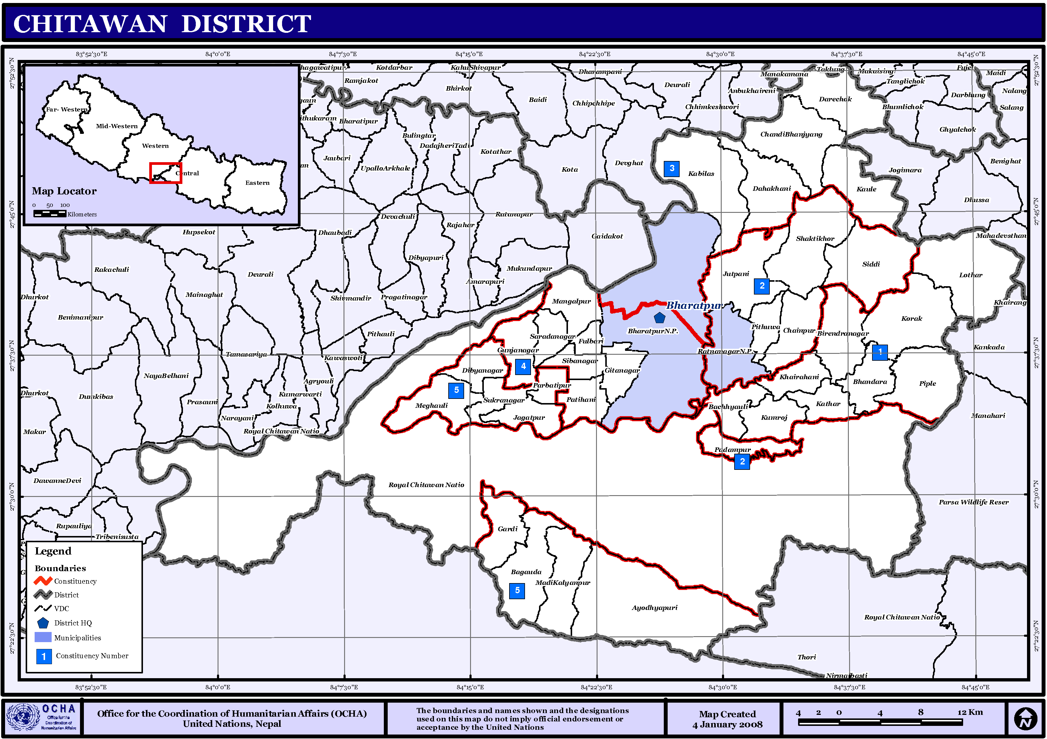 Map displaying Village Development Committees in Chitawan District, Nepal